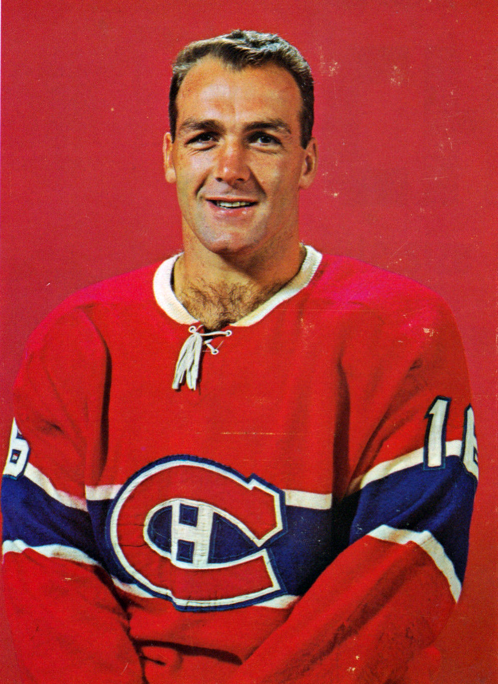 Henri Richard, Montreal Canadiens Printed on Chex Cereal Boxes from 1963 to 1965 per [1]. No copyright notices are observed on the obverse or reverse of the photos.